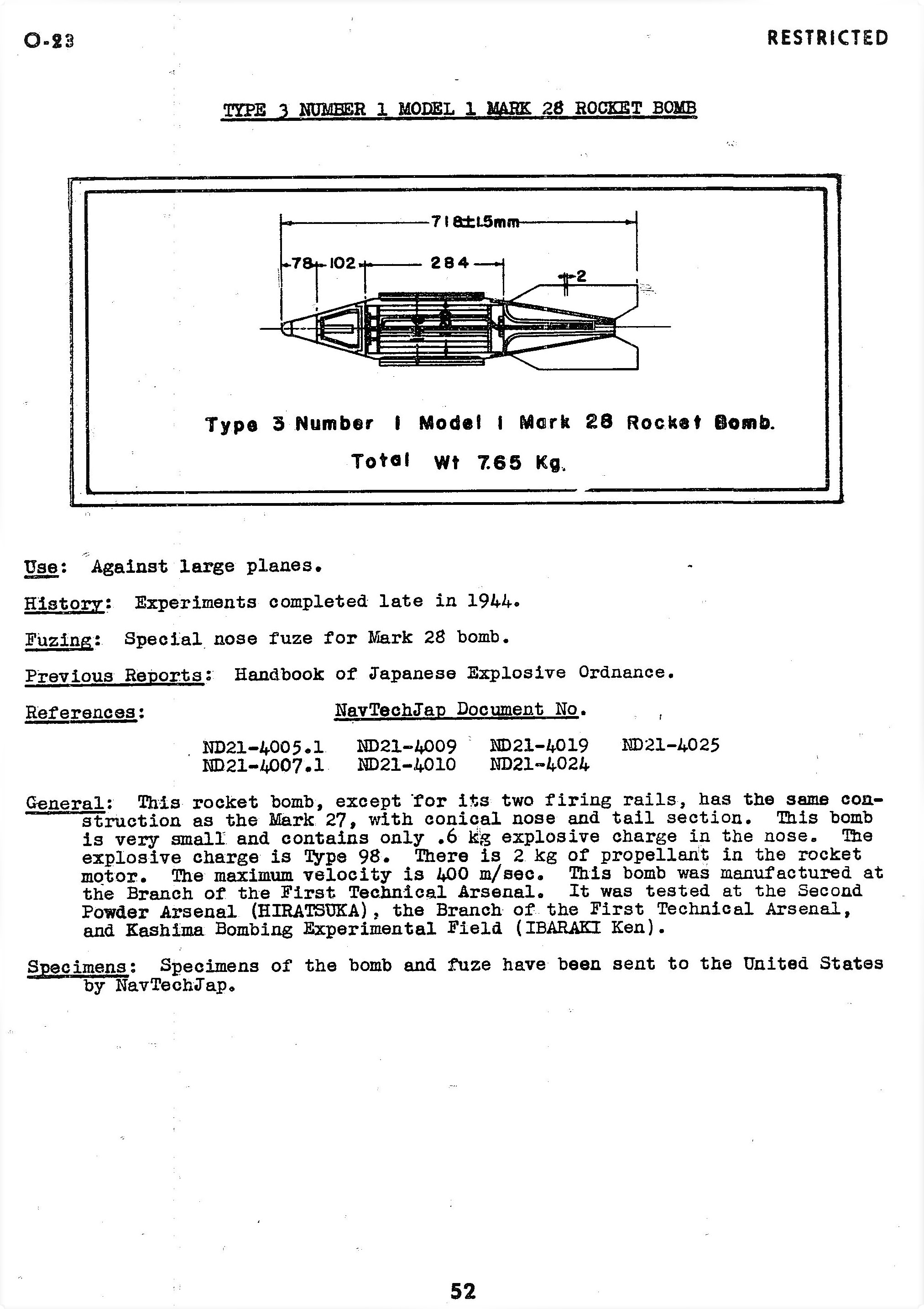 U.S. Naval Technical Mission "Japanese Bombs" Type3 mark28 rocket bomb